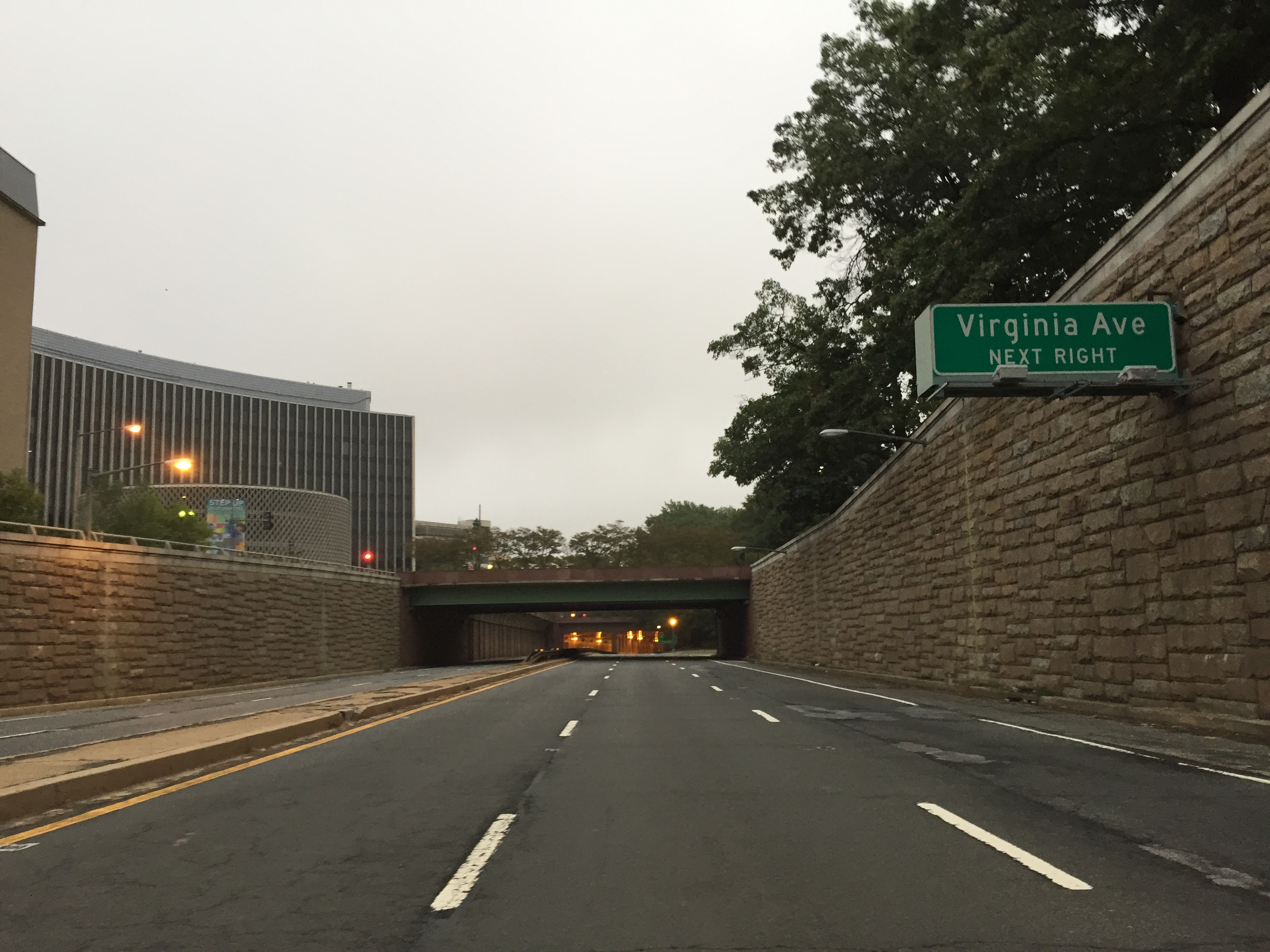 View east along the E Street Expressway between Interstate 66 (Potomac River Freeway) and 23rd Street NW in Washington, D.C.